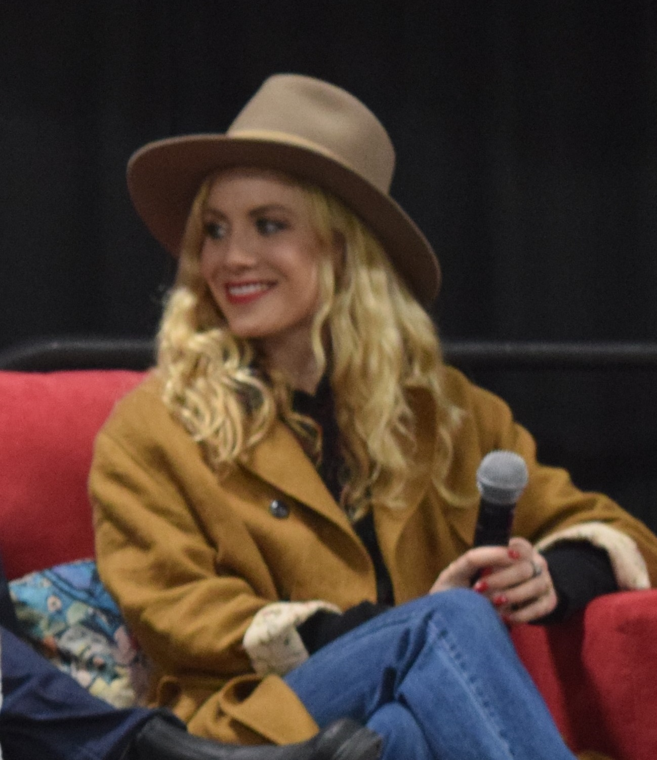 Alex McKenna at Great Philadelphia Comic-Con 2019.